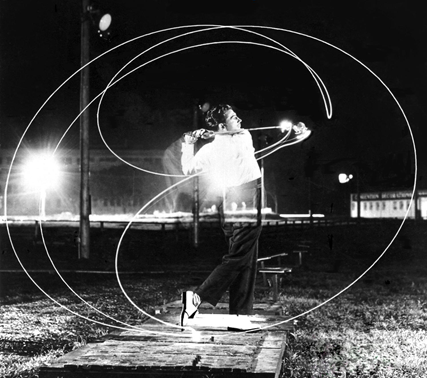 The art of the swing